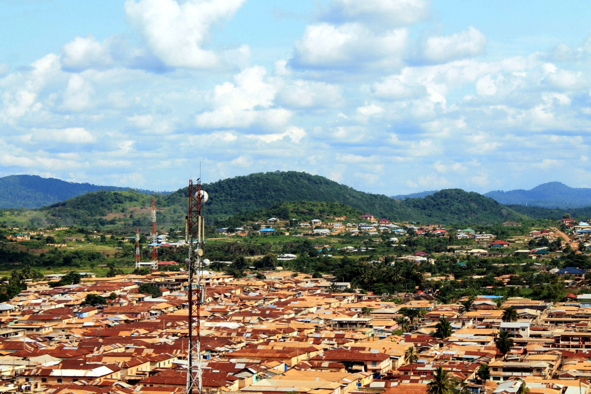 Tutuka is one of the biggest suburbs in Obuasi